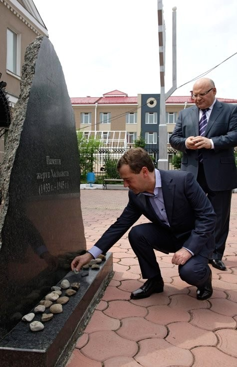 Dmitry Medvedev and Alexander Aronovich Vinnikov